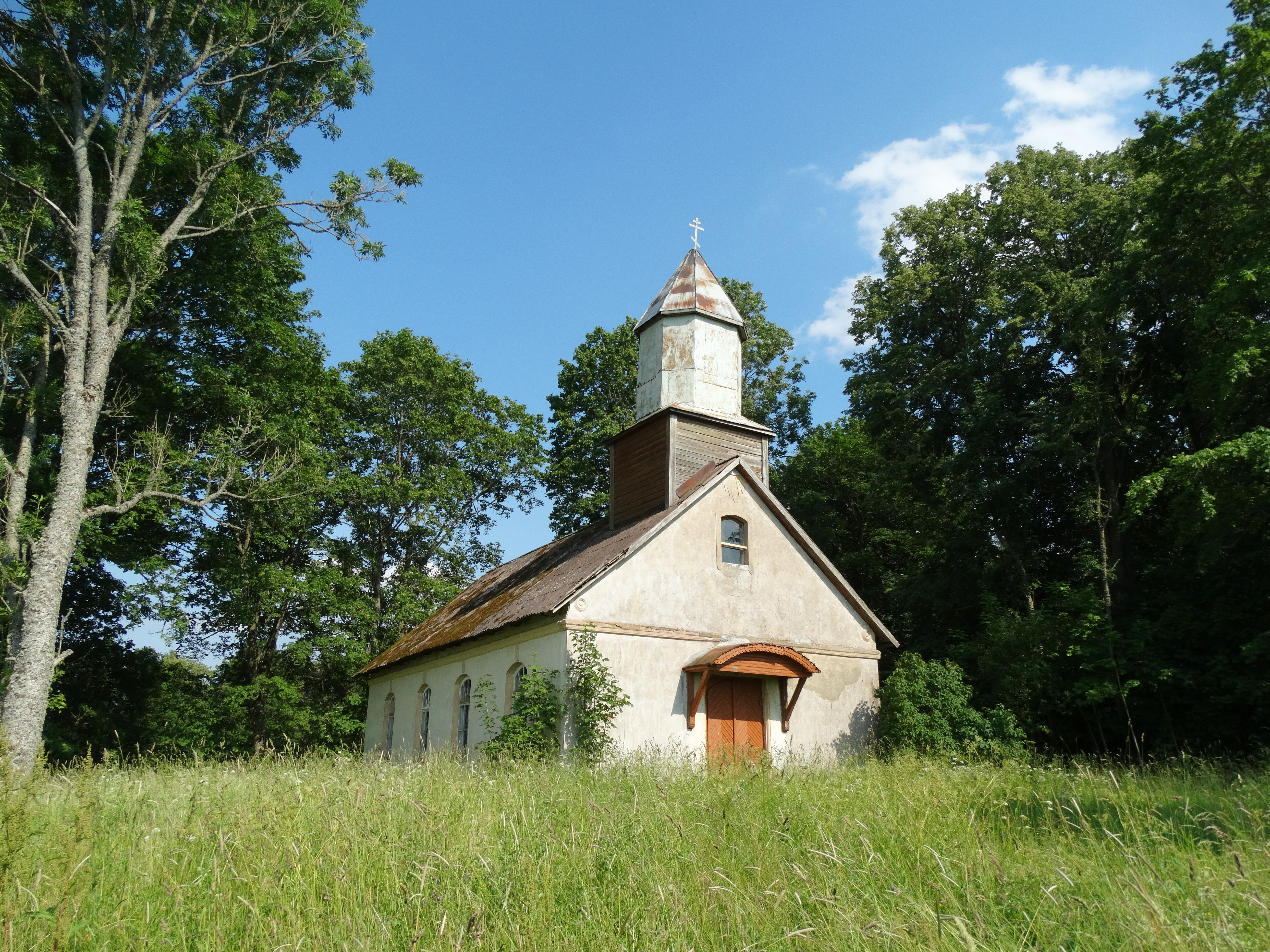 Orthodox Church of Old Believers in Juozapavas, Telšiai District, Lithuania